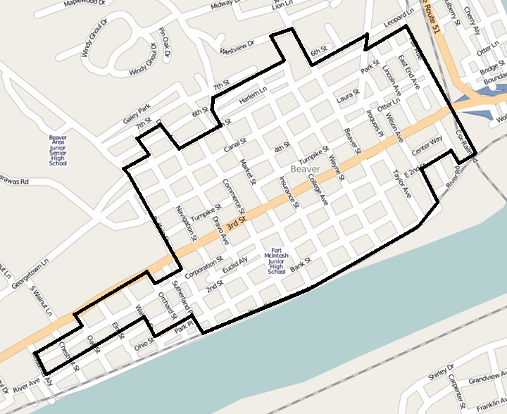 Map showing the boundaries of the Beaver Historic District in Beaver, Pennsylvania, United States. The historic district is listed on the National Register of Historic Places. Boundaries are derived from the map attached to the district's National Register nomination form.